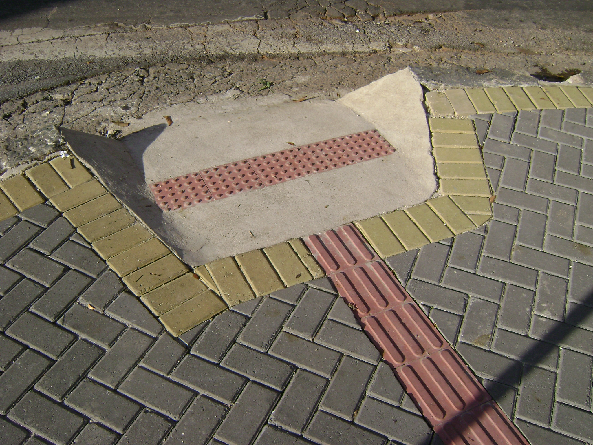 Calçada para cegos, em Belo Horizonte.